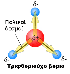 Diagram showing the net effect of polar bonds within boron trifluoride.